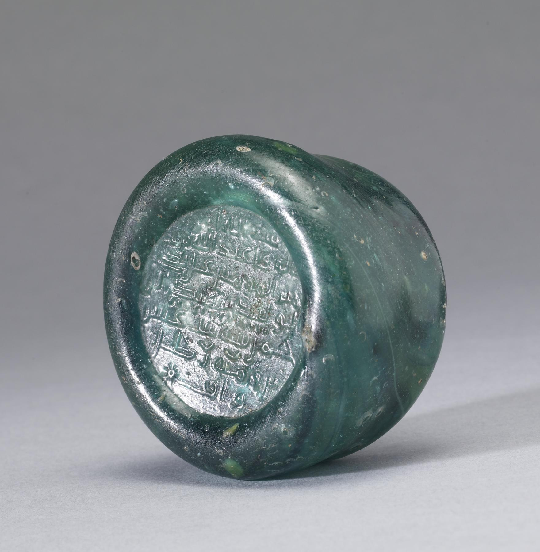 This unusual green glass weight is among the earliest dated Islamic objects (other than coins) in any American museum. In addition to the name al-Walid, who was the financial director of the Damascus treasury, the weight's inscription, stamped on top in an angular script known as kufic, evokes Yazid III, a caliph, or ruler, of the Umayyad Dynasty (661-750).